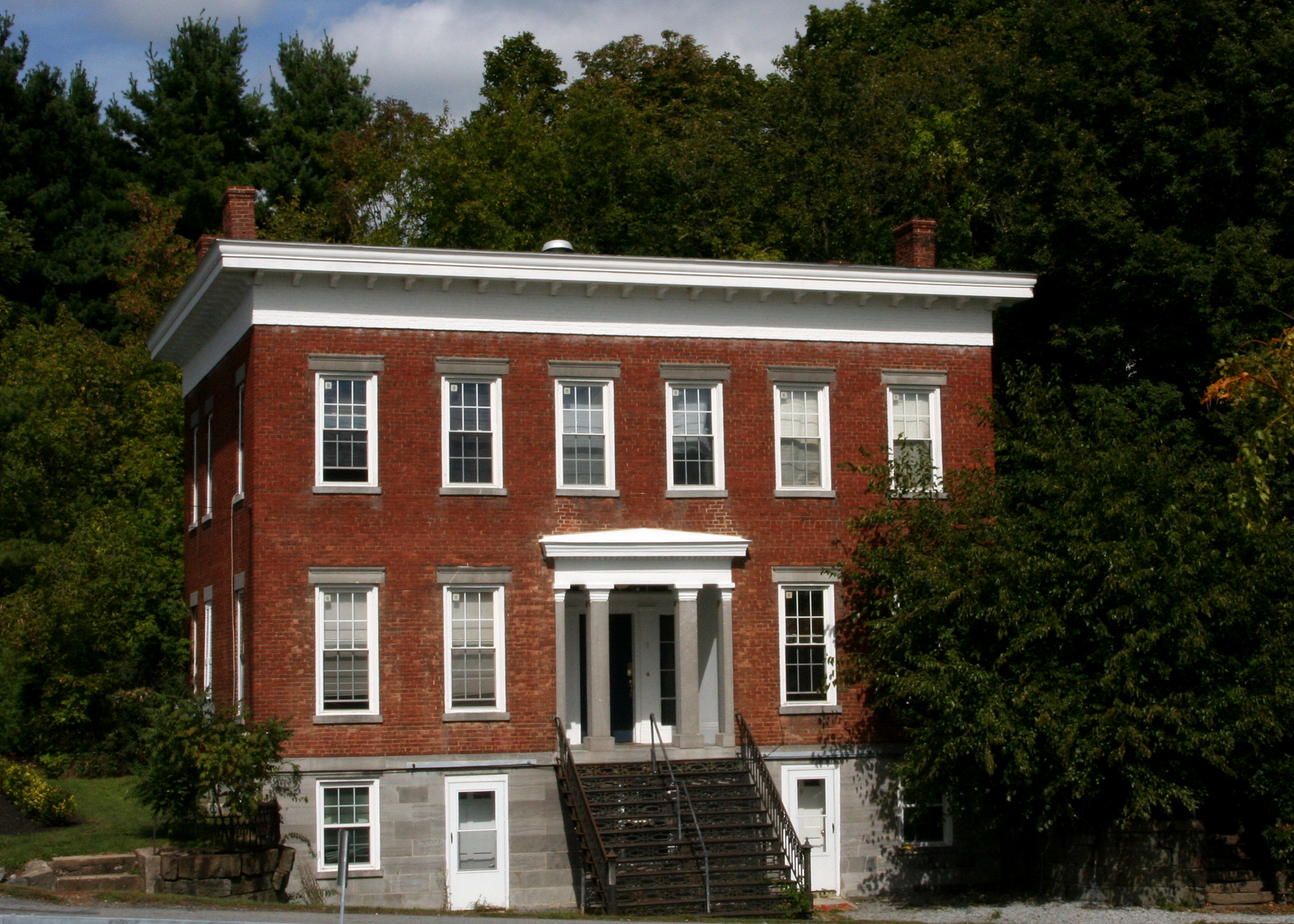 Noxon Bank building listed on the National Register of Historic Places. 9 Terminal Rd Cresent NY. Taken 9.19.2012